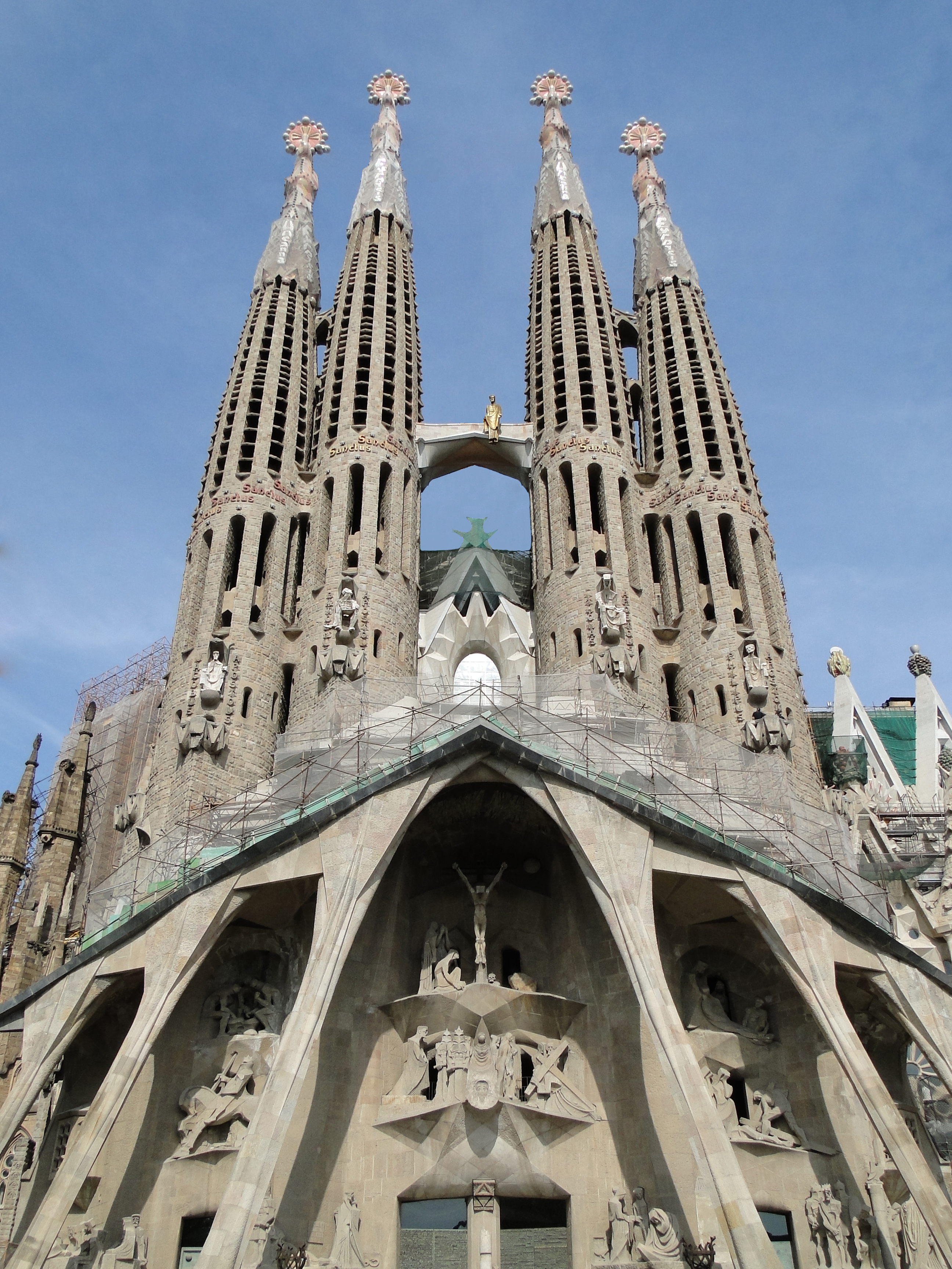 The Passion façade of the Sagrada Familia, Barcelona, Spain